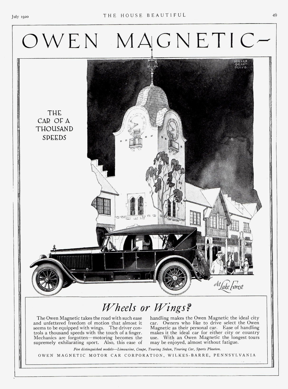 1920 Owen Magnetic Touring Car advert, from House Beautiful. More info on the Owen Magnetic here